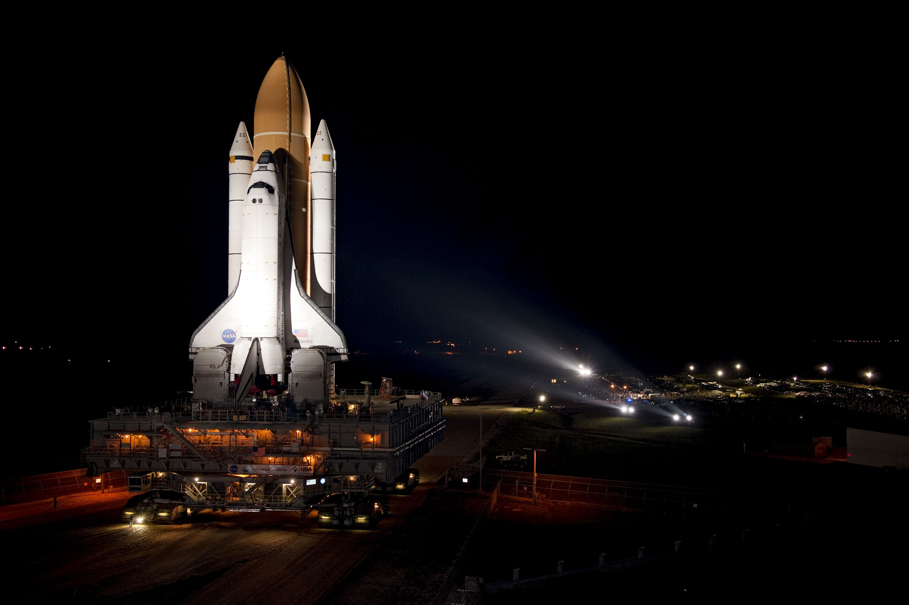 Bathed in xenon lights, space shuttle Atlantis embarks on its final journey from the Vehicle Assembly Building to Launch Pad 39A at NASA's Kennedy Space Center in Florida. First motion was at 8:42 p.m. EDT. It will take the crawler-transporter about six hours to carry the shuttle, attached to its external fuel tank and solid rocket boosters, to the seaside launch pad. The milestone move paves the way for the launch of the STS-135 mission to the International Space Station, targeted for July 8. STS-135 will be the 33rd flight of Atlantis, the 37th shuttle mission to the space station, and the 135th and final mission of NASA's Space Shuttle Program